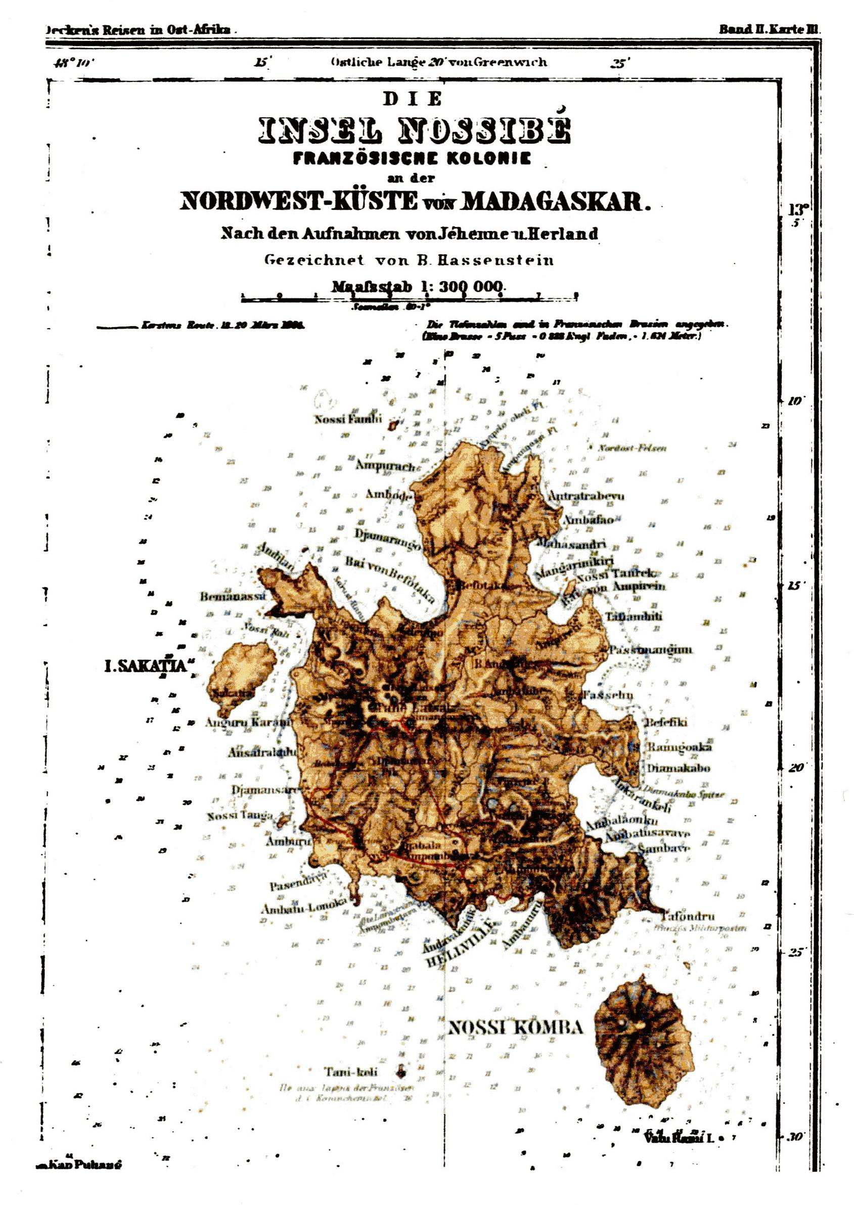 Map of Nosy Be (former Nossibe) from Reisen in Ost-Afrika in den Jahren 1859 bis 1865, Carl Claus von der Decken, edited by Otto Kersten